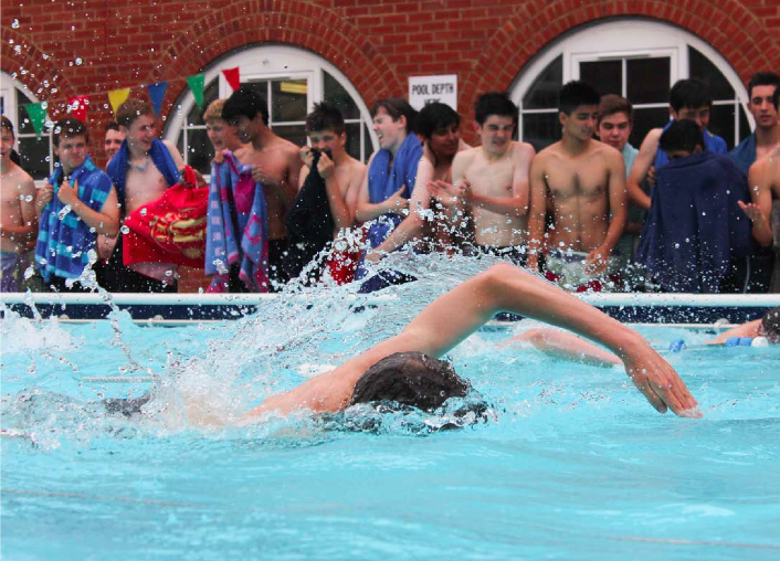 School swimming pool